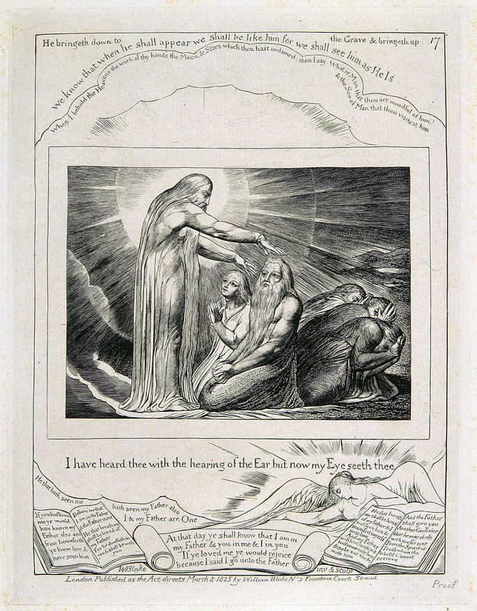 17th print from William Blake's Illustrations of the Book of Job